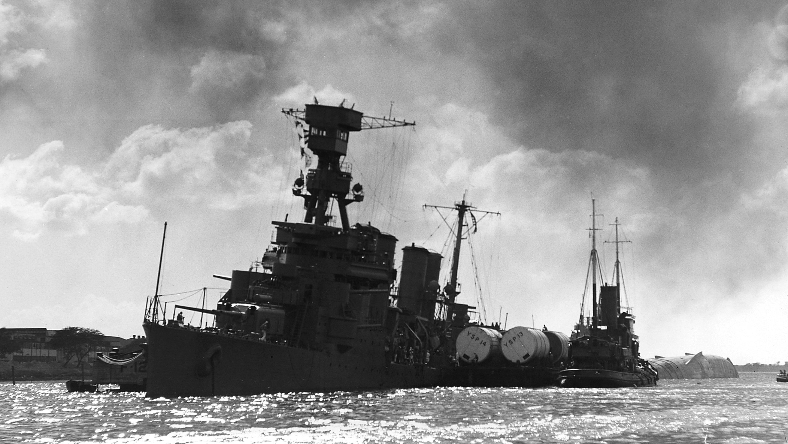 The U.S. Navy light cruiser USS Raleigh (CL-7) is kept afloat by a barge lashed alongside, after she was damaged by a Japanese torpedo and a bomb, 7 December 1941. The barge has salvage pontoons YSP-14 and YSP-13 on board. The capsized hull of USS Utah (AG-16) is visible astern of Raleigh.